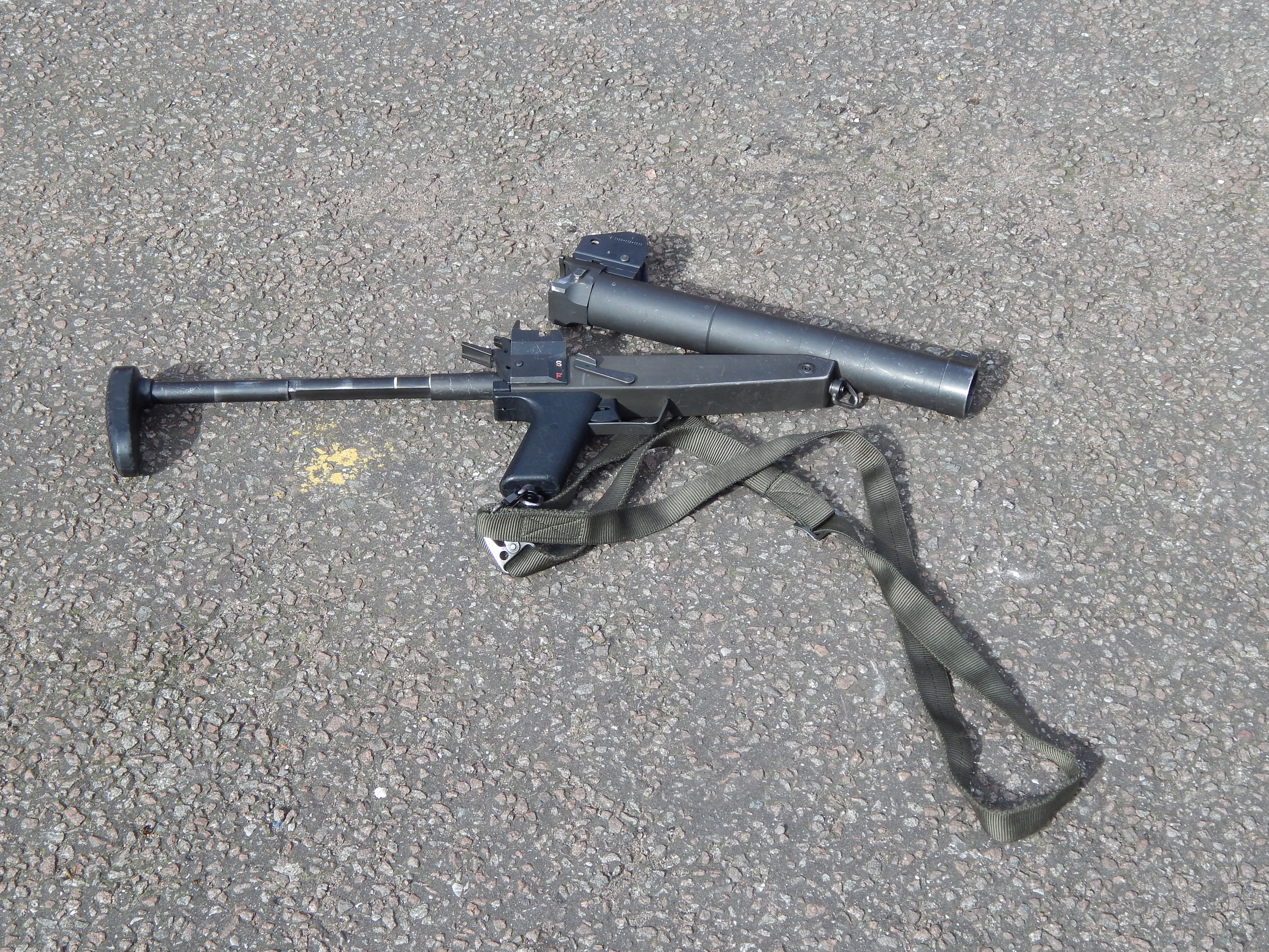 Baton gun from a West Midlands Police armed response vehicle; one of the less-lethal options available to specially trained officers. Photographed with the kind permission of the ARV's crew.